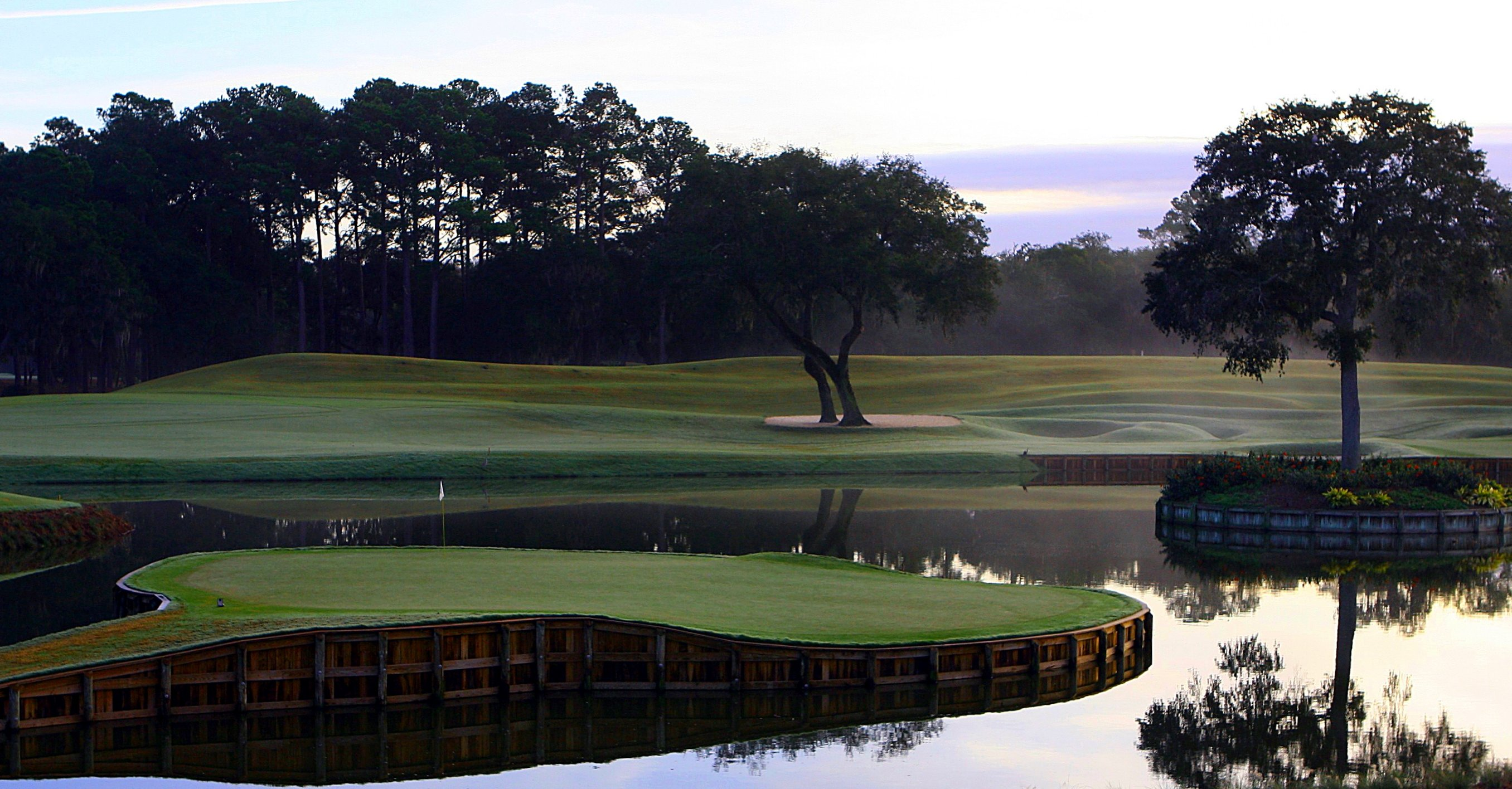 The famous #17, TPC Sawgrass in Ponte Vedra, Florida